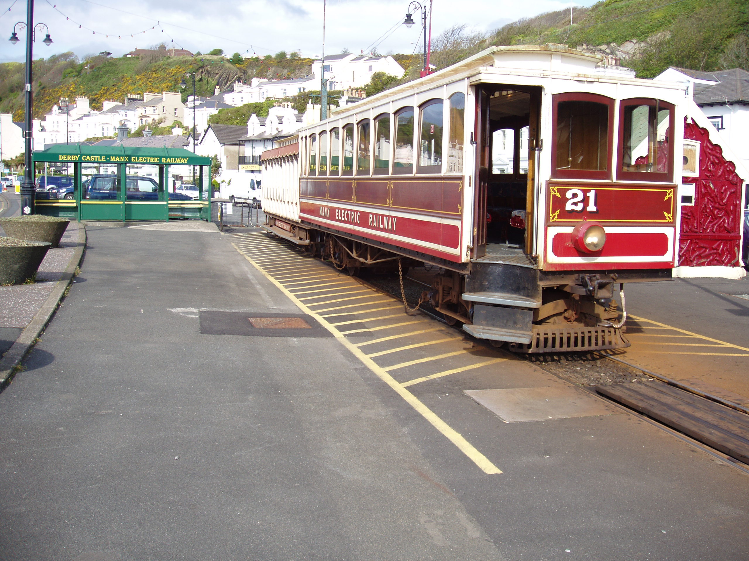 Winter saloon car 21 stands by at the Derby Castle tram station, the southern terminus the Manx Electric Railway. The waiting shelter (green) and parking lot are on the left while the ticket sales kiosk (red) can be seen on the right. This is on the far east end of Douglas, Isle of Man.